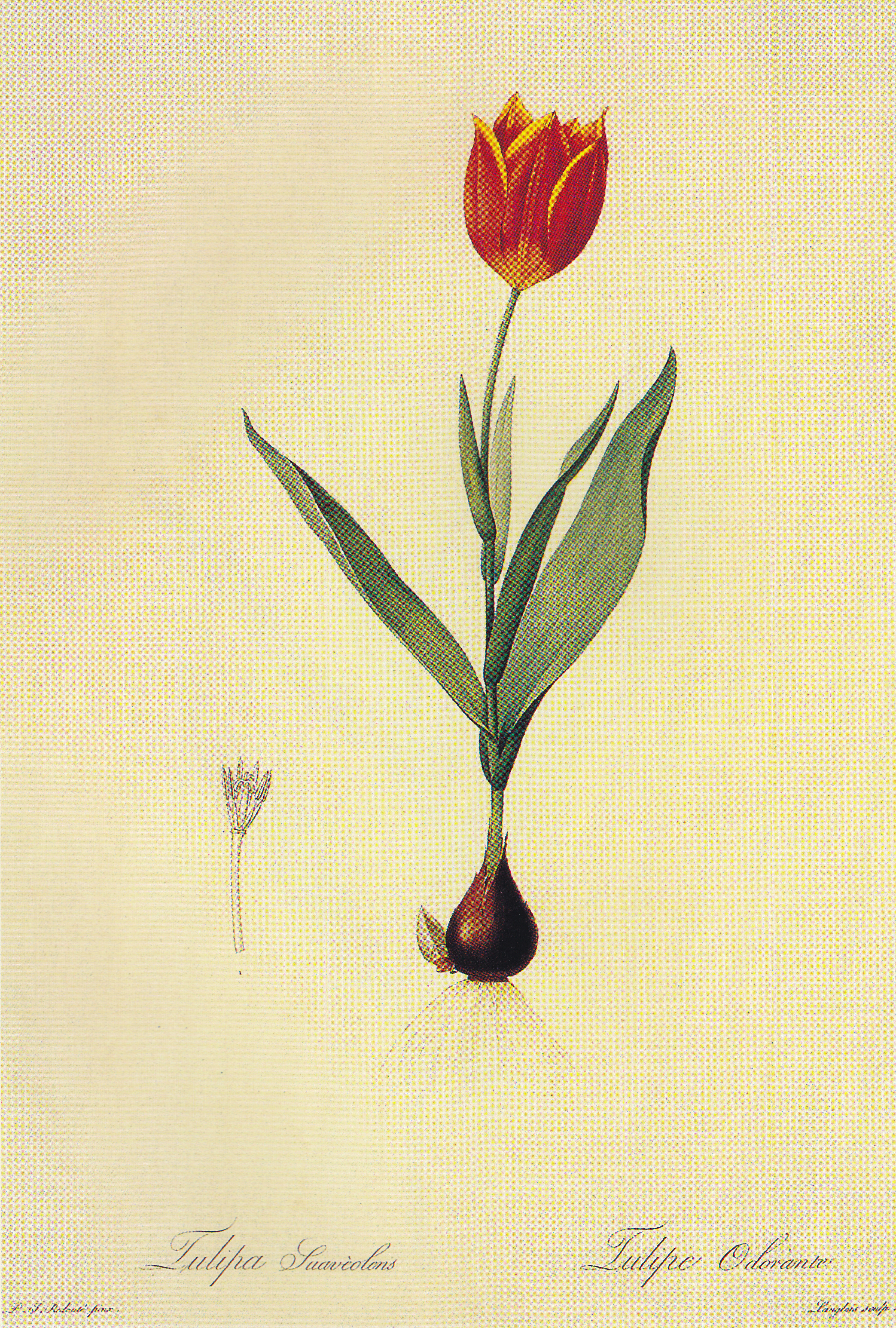 Tulipa suaveolens (syn.: Tulipa shrenckii), a species bred in Europe since the XVI century, and distinct from the common garden tulip T. gesneriana.